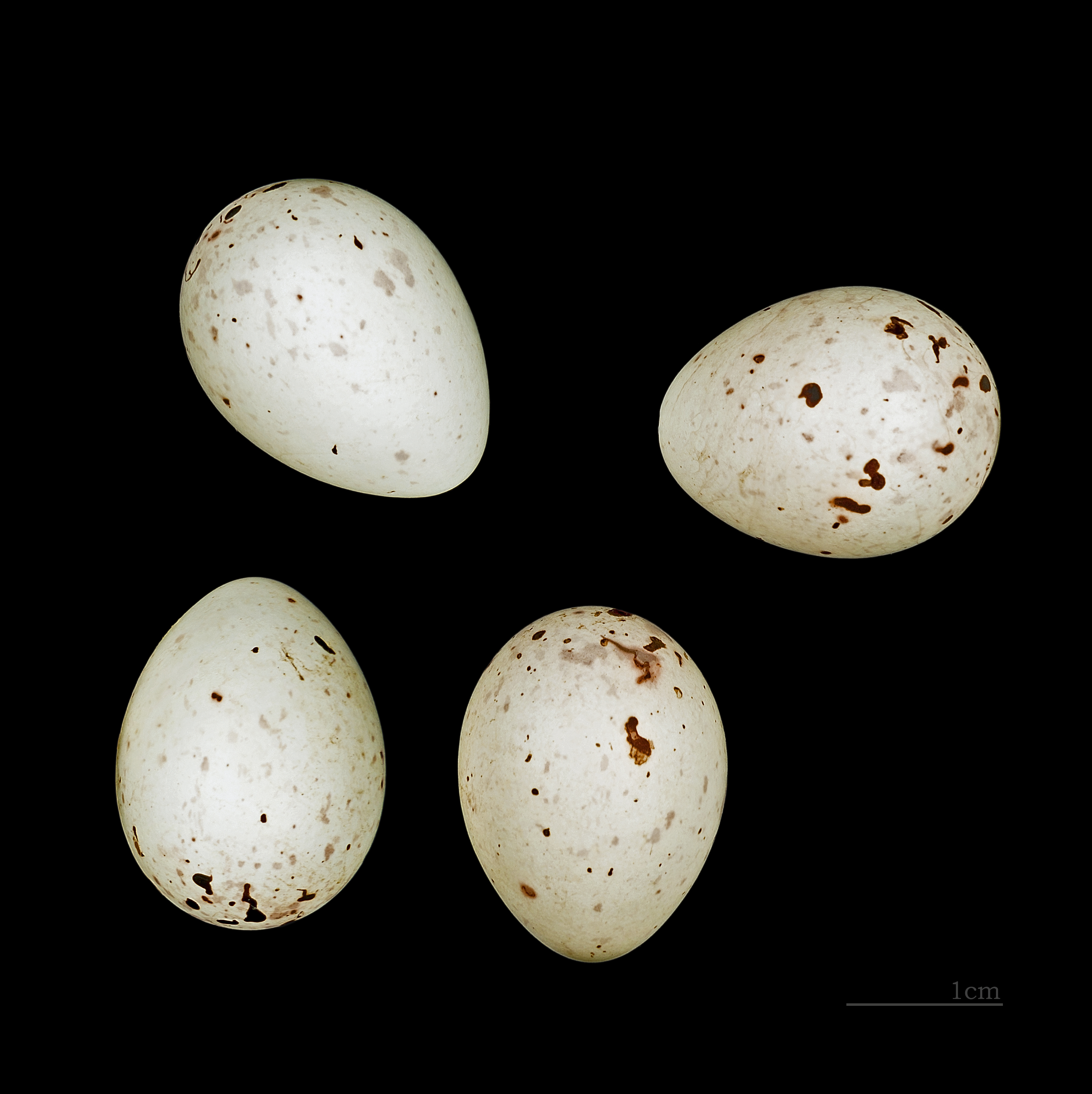 Egg of Red Crossbill - Collection of Jacques Perrin de Brichambaut